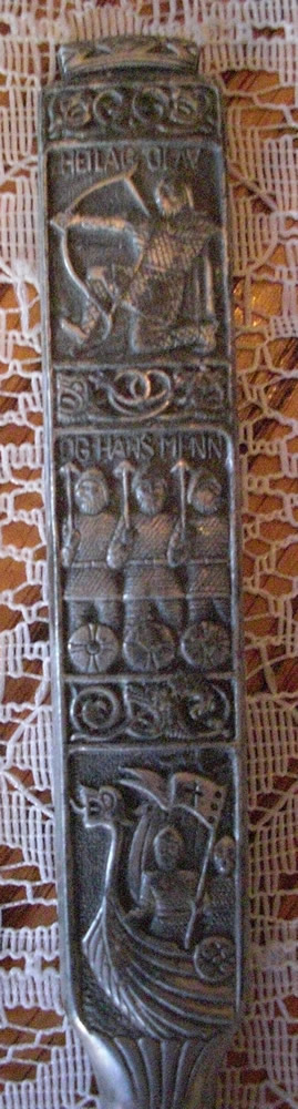 Detail on a pewter two-prong fork handle: finely detailed engravings of Norwegian scenes: Top scene: Viking King "Heilag Olav" (Olaf II Haraldsson, the King of Norway) Middle scene - Three Men "Hans Menn" (translation: His People) Bottom scene - Man in Viking Ship with Flag, inscribed "Pewter Tinn Norway"